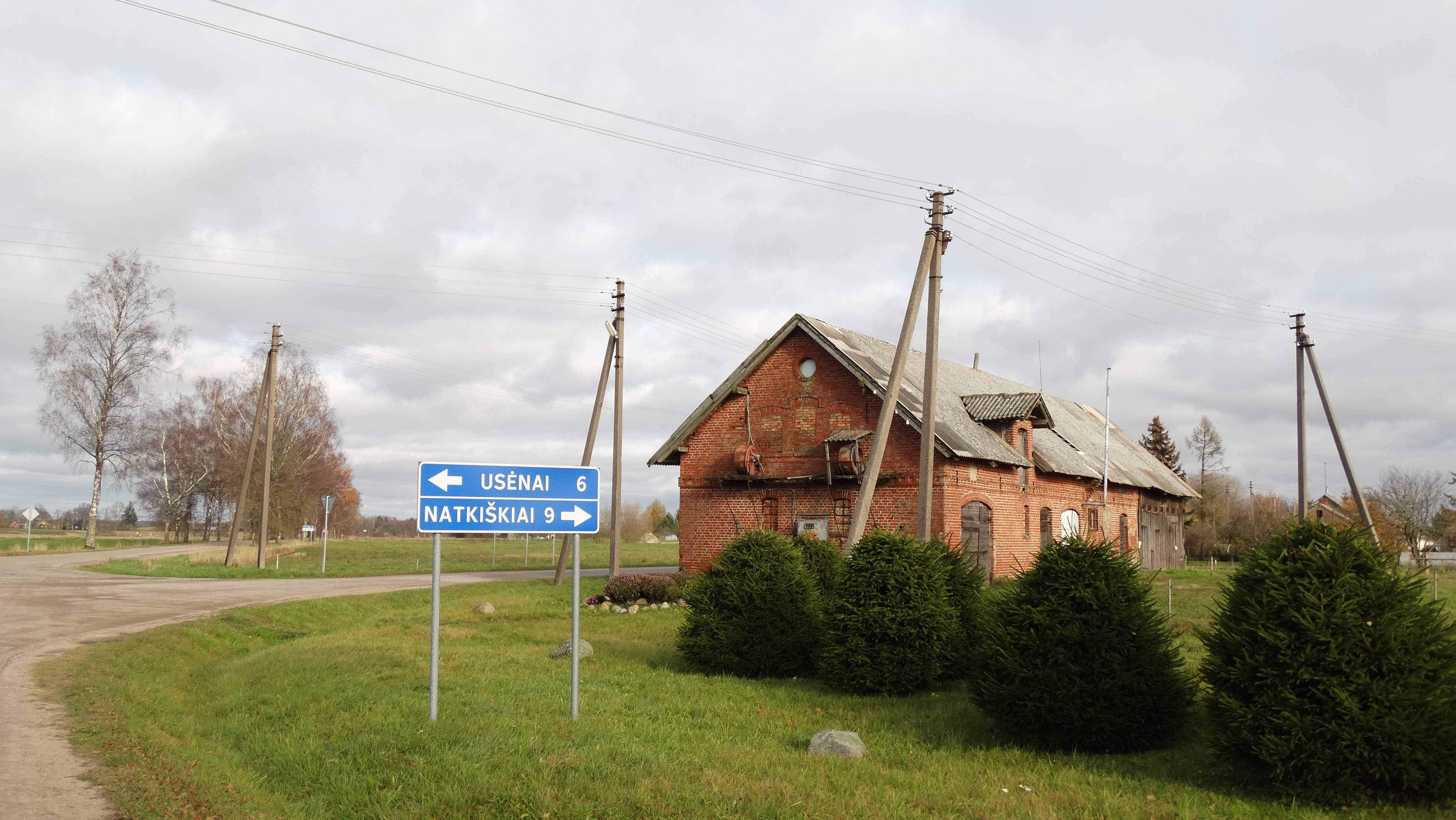 Stubriai, Šilutė district, Lithuania